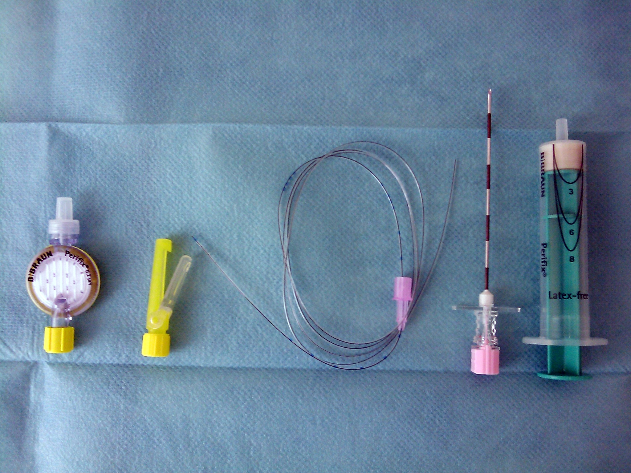 Epidural catheter